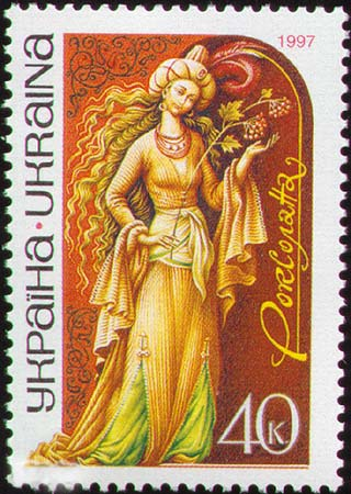 Stamp of Ukraine